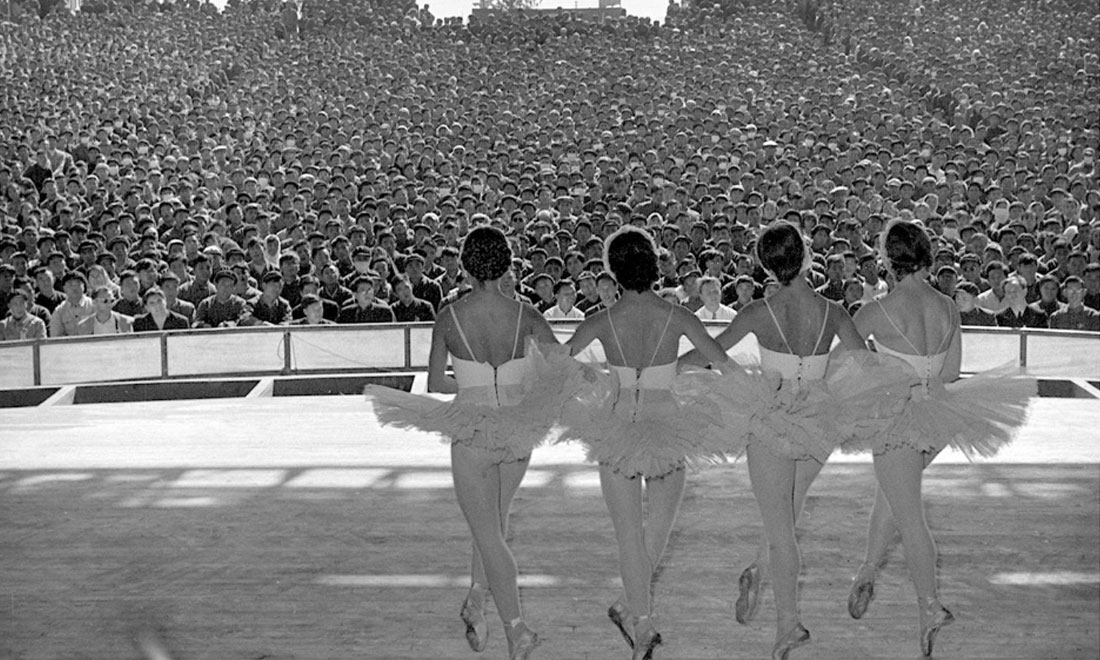 Artists from Novosibirsk Opera and Ballet Theatre performing for steel workers in Shijingshan, Beijing, China